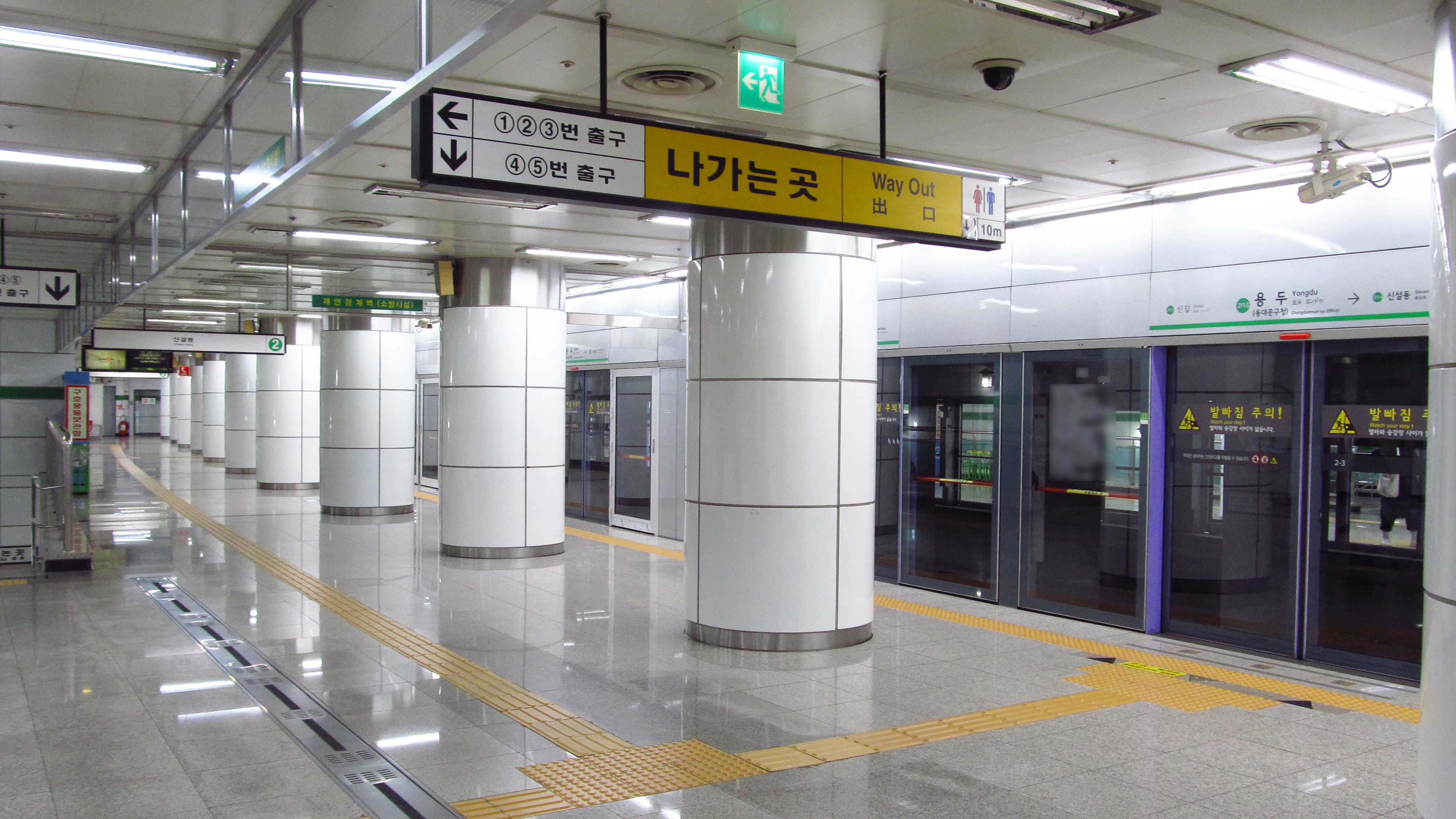 The platform at Yongdu Station on Seoul Subway Line 2 in Dongdaemun-gu, Seoul, Republic of Korea(South Korea)